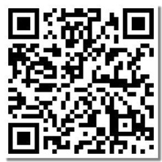 bidis